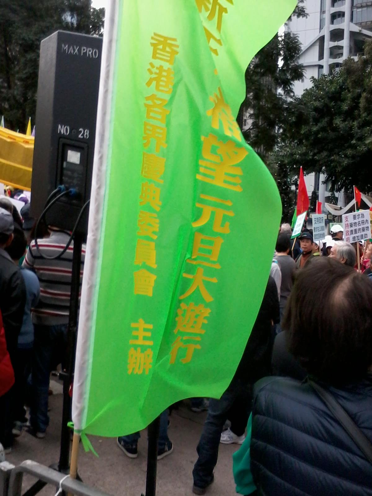 香港島香港各界慶典委員會 2013年香港元旦大巡遊 遮打道, Chater Road, Central, Hong Kong